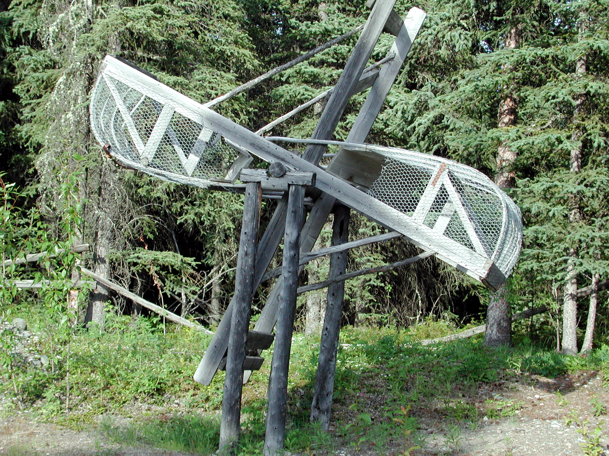 Wooden Fish Wheel at Slana